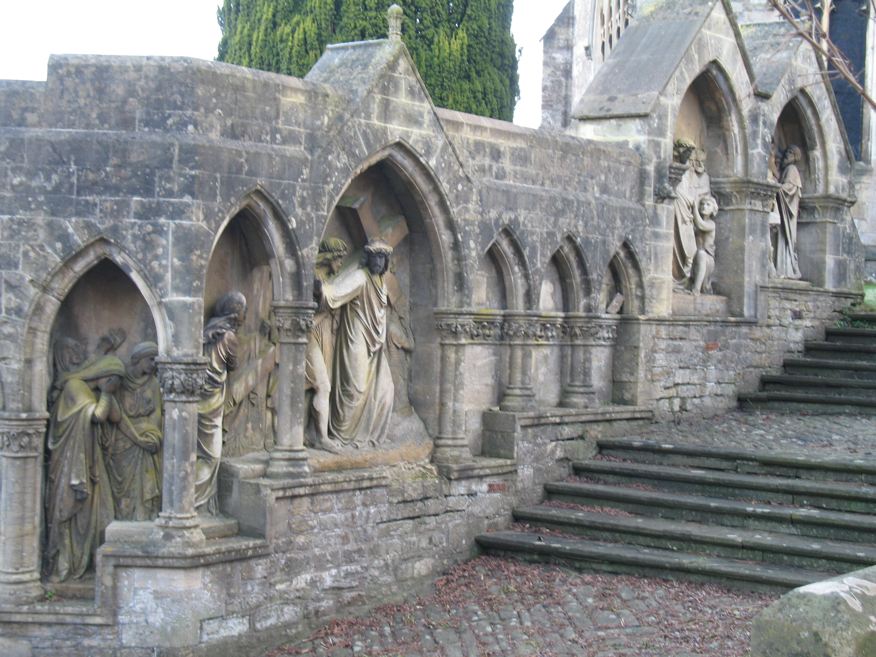 Via Crucis St Johns Church Frome. The Church of St. John the Baptist, Frome is a parish church in the Church of England located in Frome, Somerset, Britain.